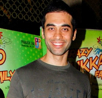 Indian actor Kushal Punjabi at the screening of Crazy Kukkad Family in 2015